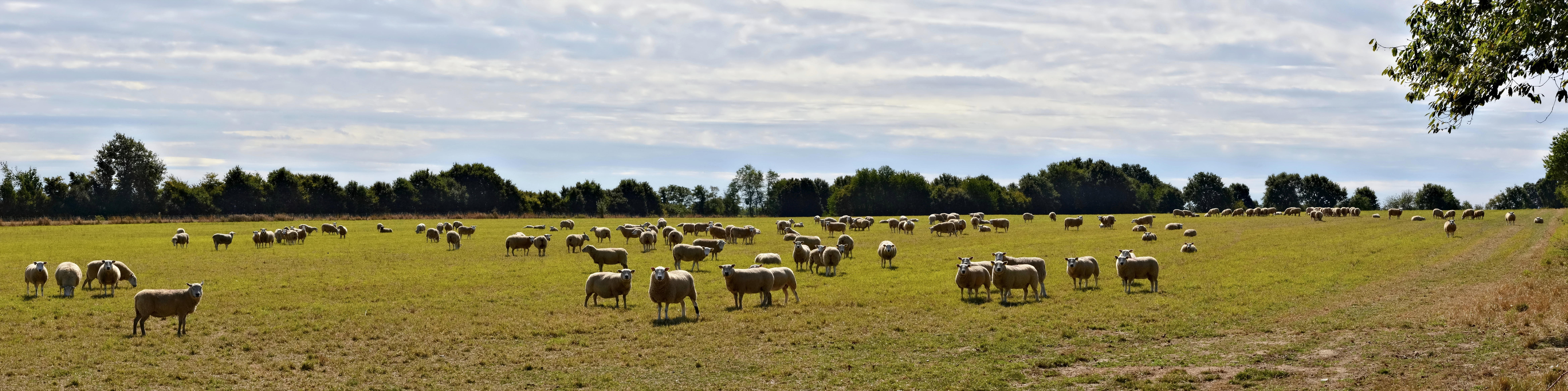 Flock of sheep (Ovis aries), grazing near La Chapelle-Bâton, Vienne, France.